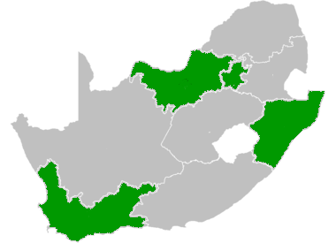 A map of South Africa indicating the provinces in which Aussie Rules was played in 2007